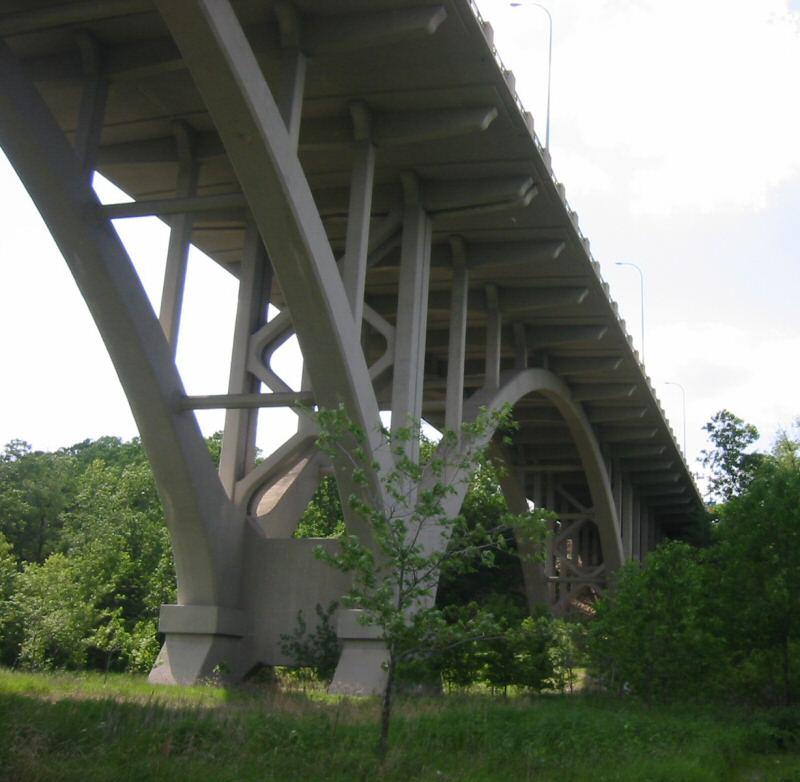 The Mendota Bridge as viewed from underneath, in Fort Snelling State Park.